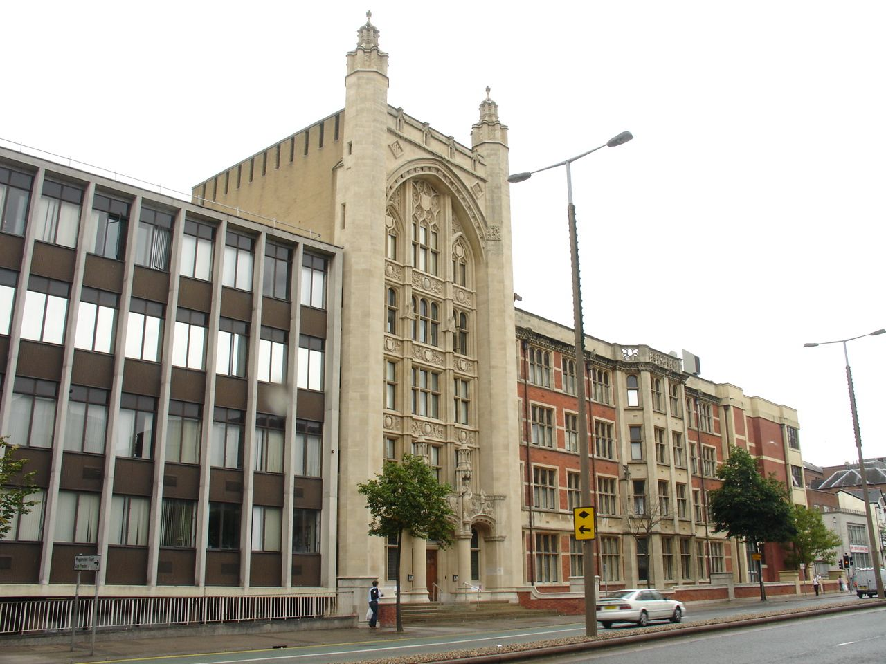 School of Engineering at Cardiff University (view from Newport Road).